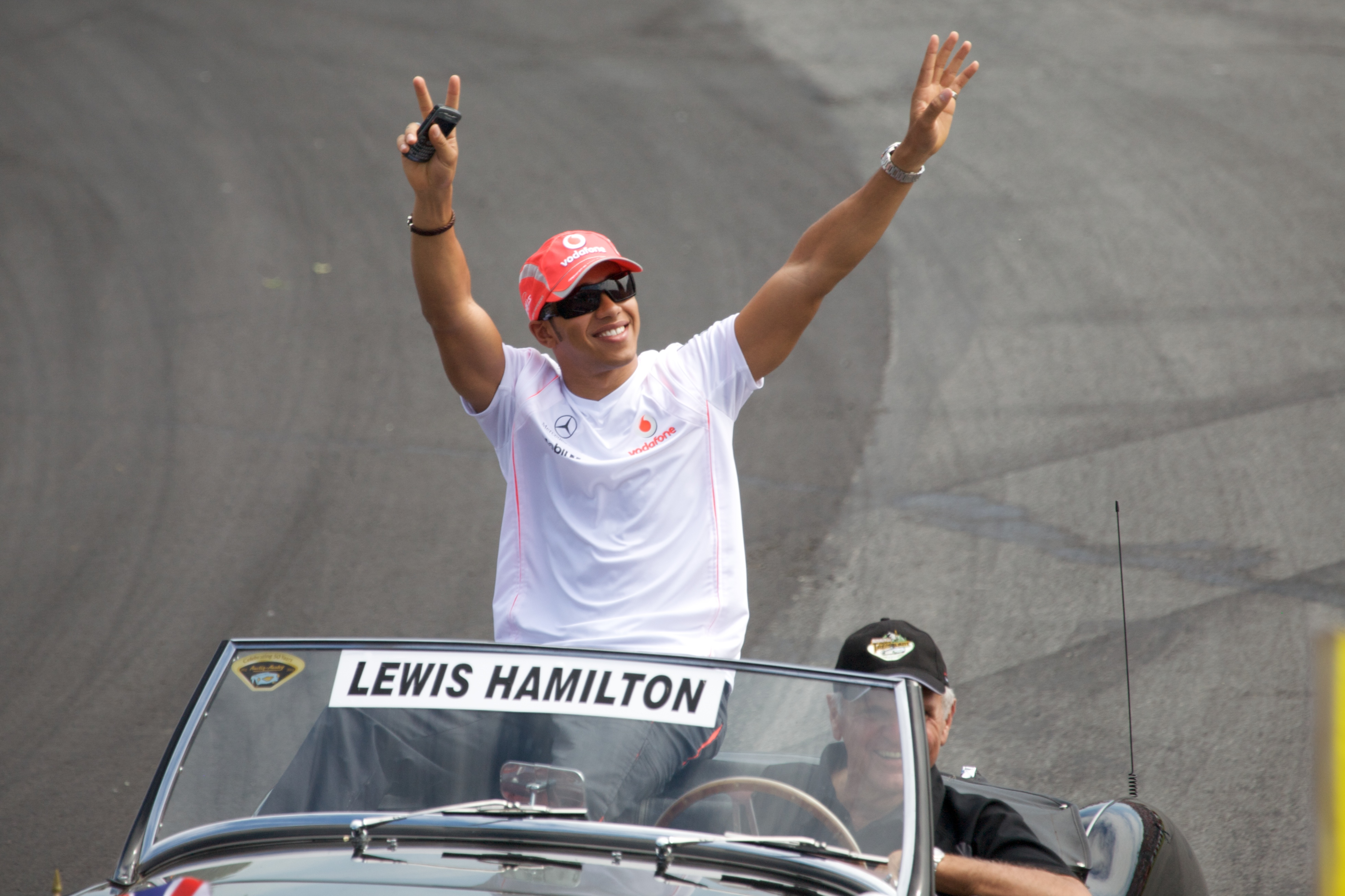 Lewis Hamilton at the 2008 Canadian Grand Prix.